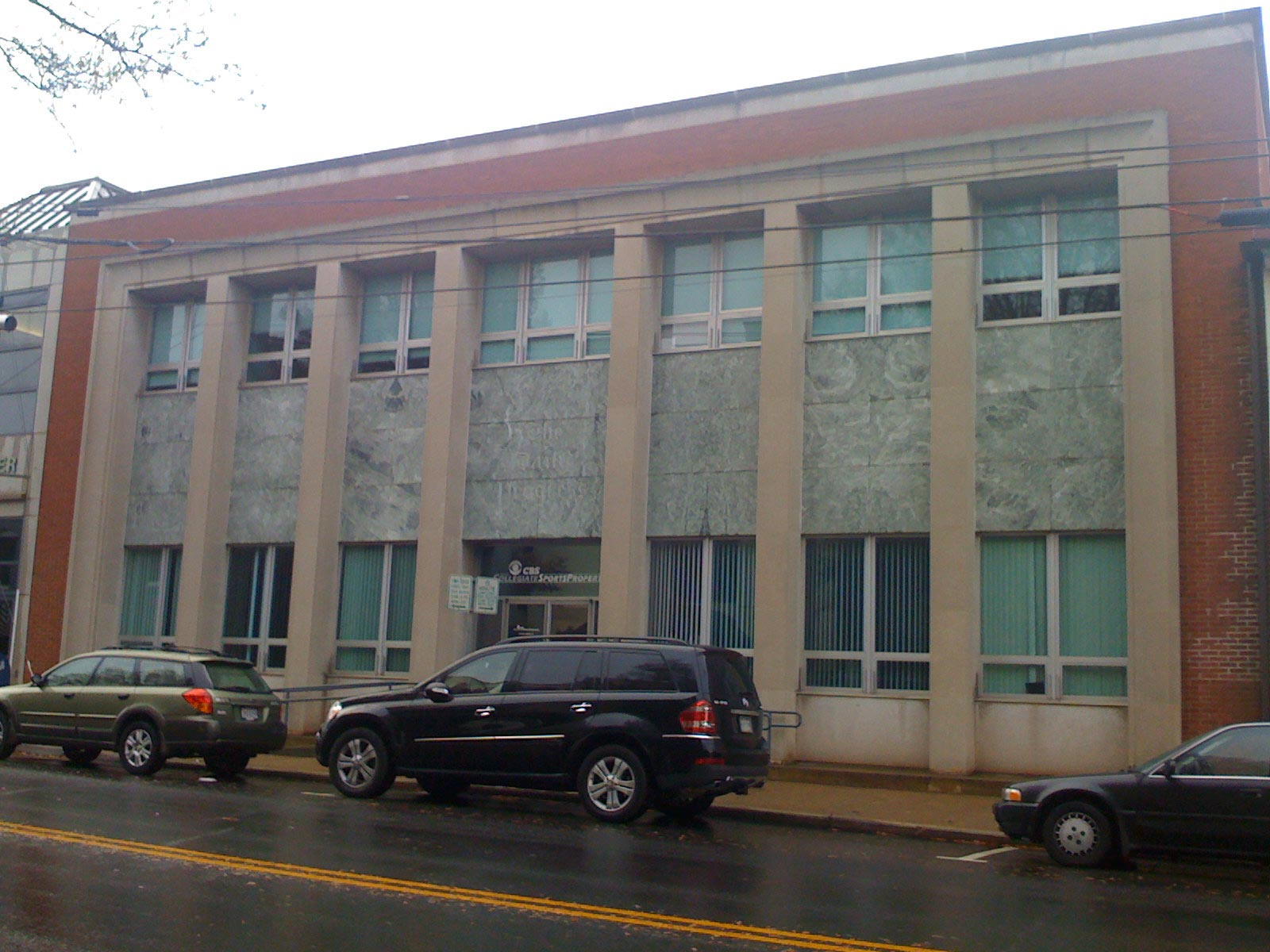 The building that long housed the Charlottesville Daily Progress, in downtown Charlottesville, Virginia, USA.